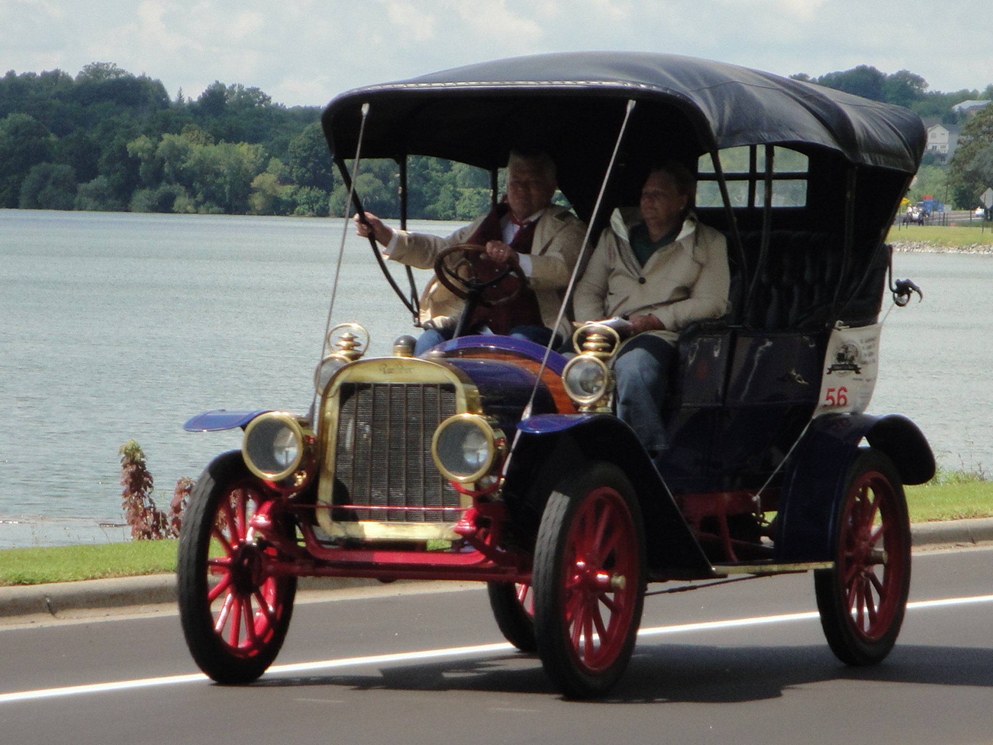 Silver Anniversary New London to New Brighton Antique Car Run, Buffalo Minnesota